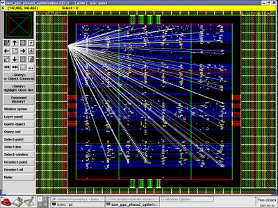 Before CTS